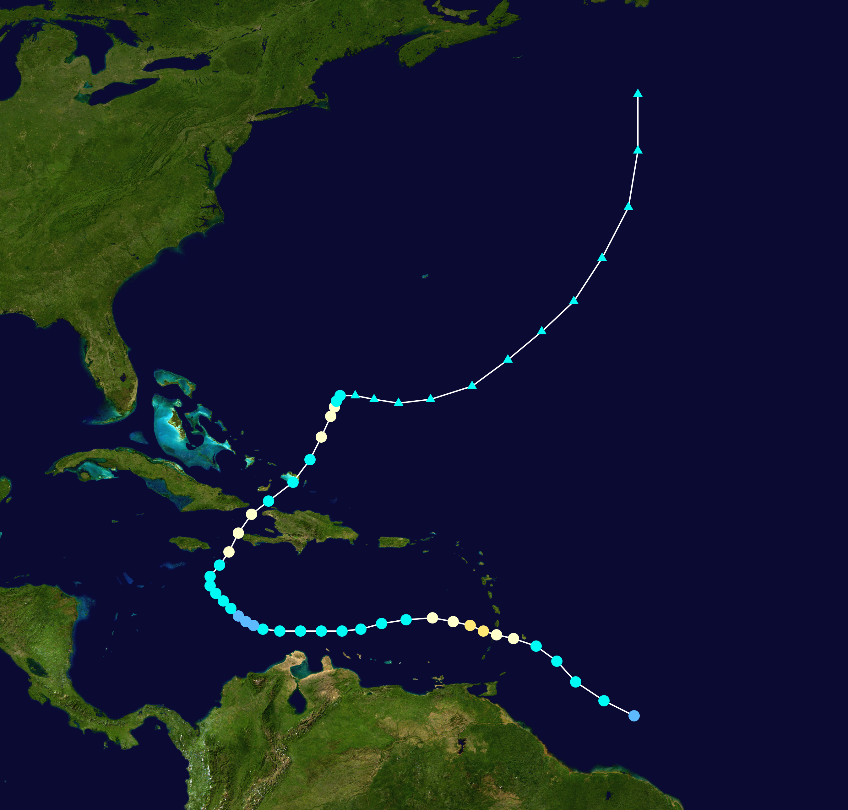 Track map of Hurricane Tomas of the 2010 Atlantic hurricane season. The points show the location of the storm at 6-hour intervals. The colour represents the storm's maximum sustained wind speeds as classified in the Saffir–Simpson scale (see below), and the shape of the data points represent the nature of the storm, according to the legend below. Saffir–Simpson scale Tropical depression≤38 mph≤62 km/h Category 3111–129 mph178–208 km/h Tropical storm39–73 mph63–118 km/h Category 4130–156 mph209–251 km/h Category 174–95 mph119–153 km/h Category 5≥157 mph≥252 km/h Category 296–110 mph154–177 km/h Unknown Storm type Tropical cyclone Subtropical cyclone Extratropical cyclone / Remnant low / Tropical disturbance / Monsoon depression